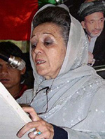 Minister of Public Health Sohaila Sediq, a Pashtun, is one of two female ministers in President Karzai's cabinet and the only female general ever to serve in the Afghan army. She earned a reputation for saving the lives of soldiers and civilians during the rocket attacks in the 1990s. When the Taliban took over, they ordered her to leave the hospital. Within months, the regime realized it had lost the country's best surgeon and asked her to return to the military hospital, where she treated and earned the respect of soldiers on both sides of the conflict. Now she is serving as the Minister of Public Health.